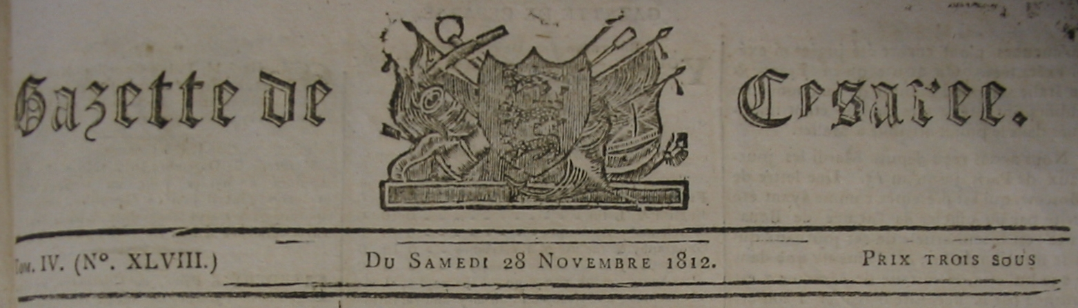 Gazette de Césarée, Jersey newspaper masthead, 28 November 1812